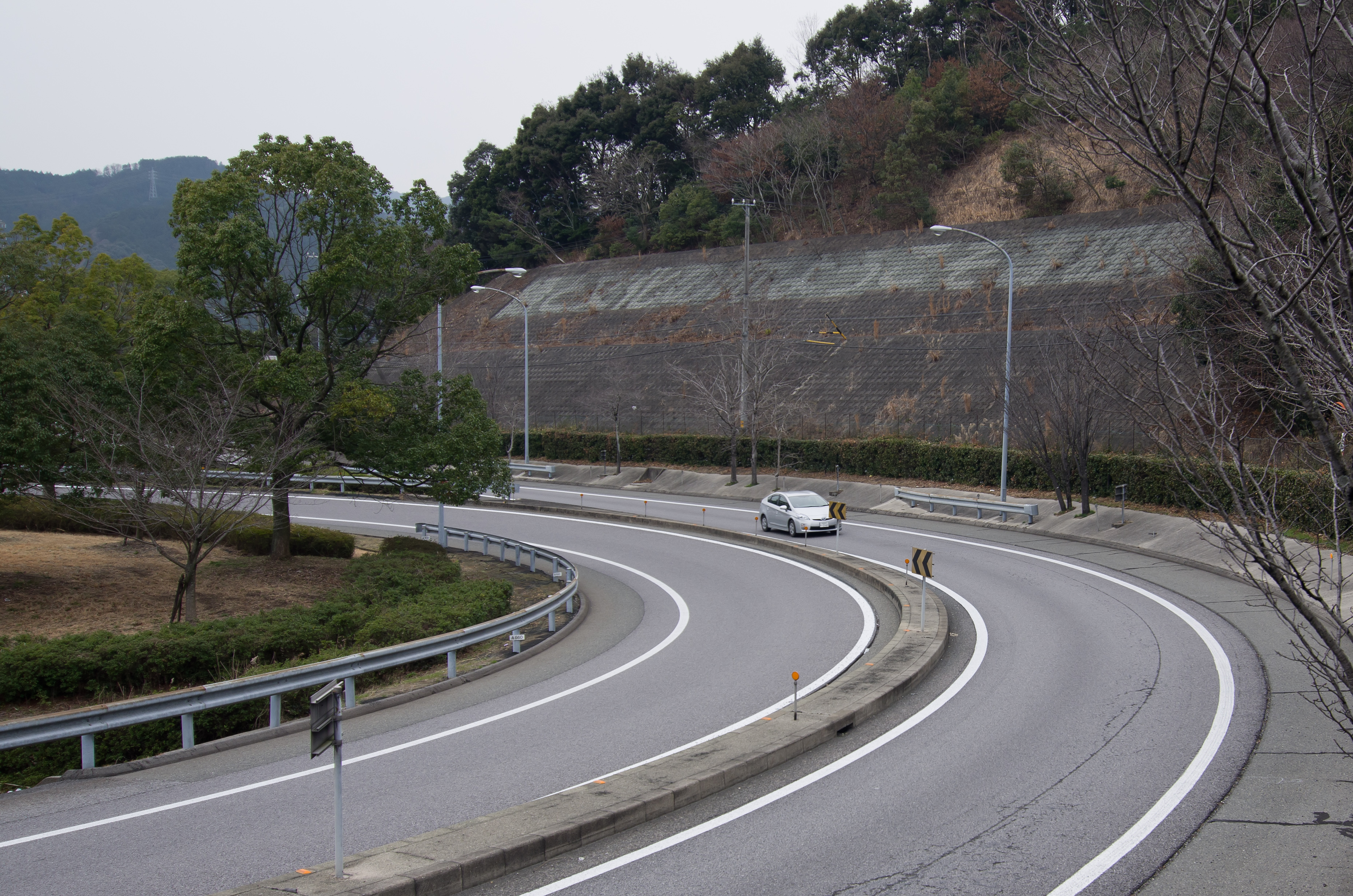 Welcome sign located at Tomei Expressway Otowa Gamagori I.C.